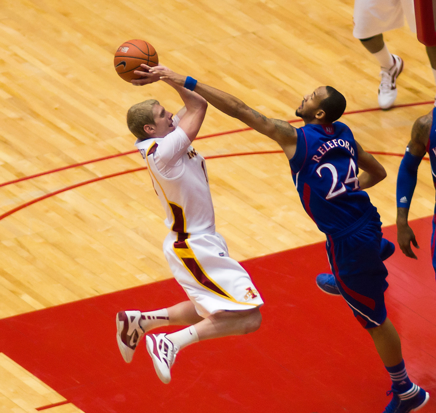 Scott Christopherson of Iowa State takes a jump shot against Releford of Kansas